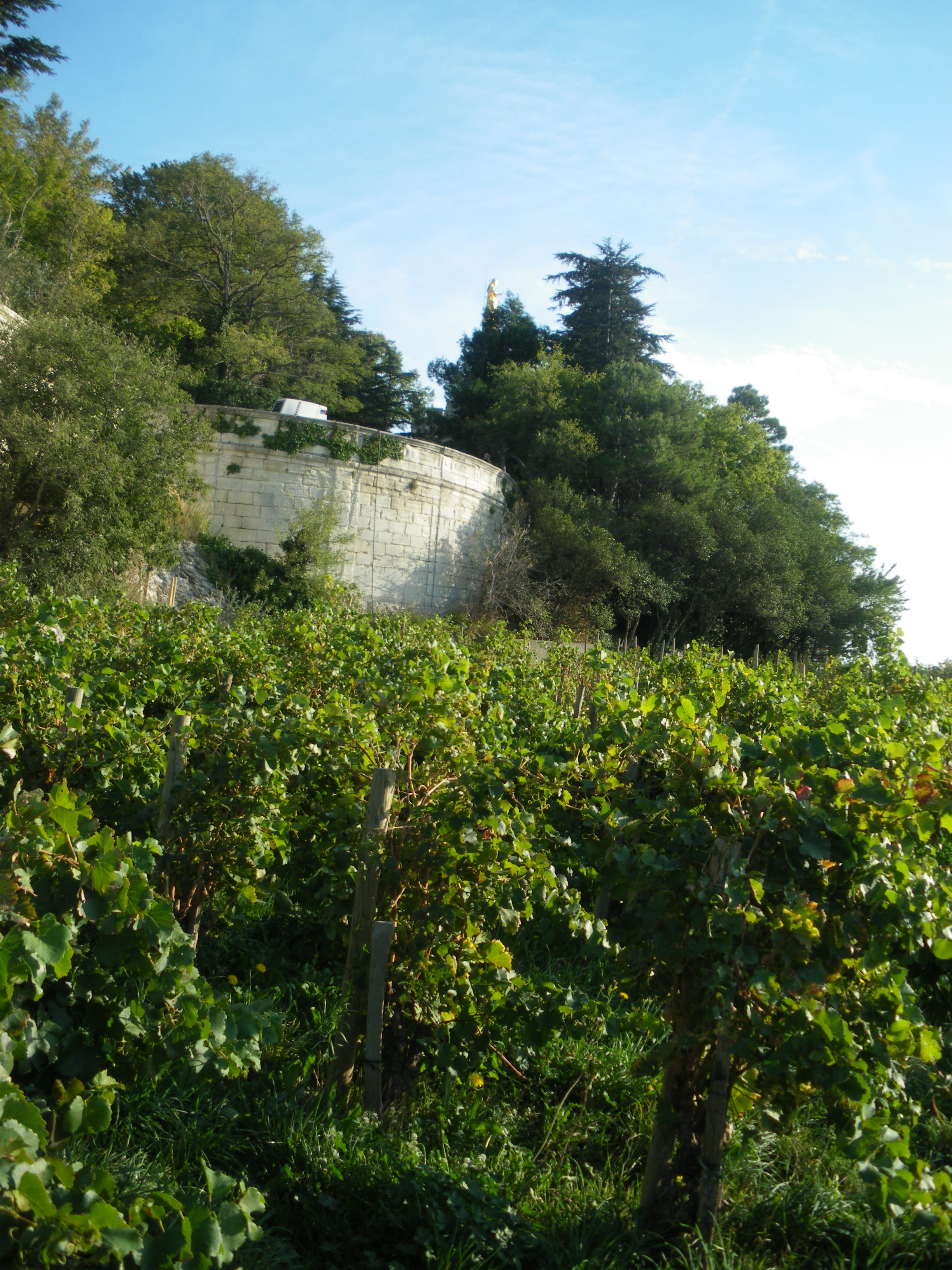 Vineyard near Doms Garden, in Avignon, Vaucluse, France